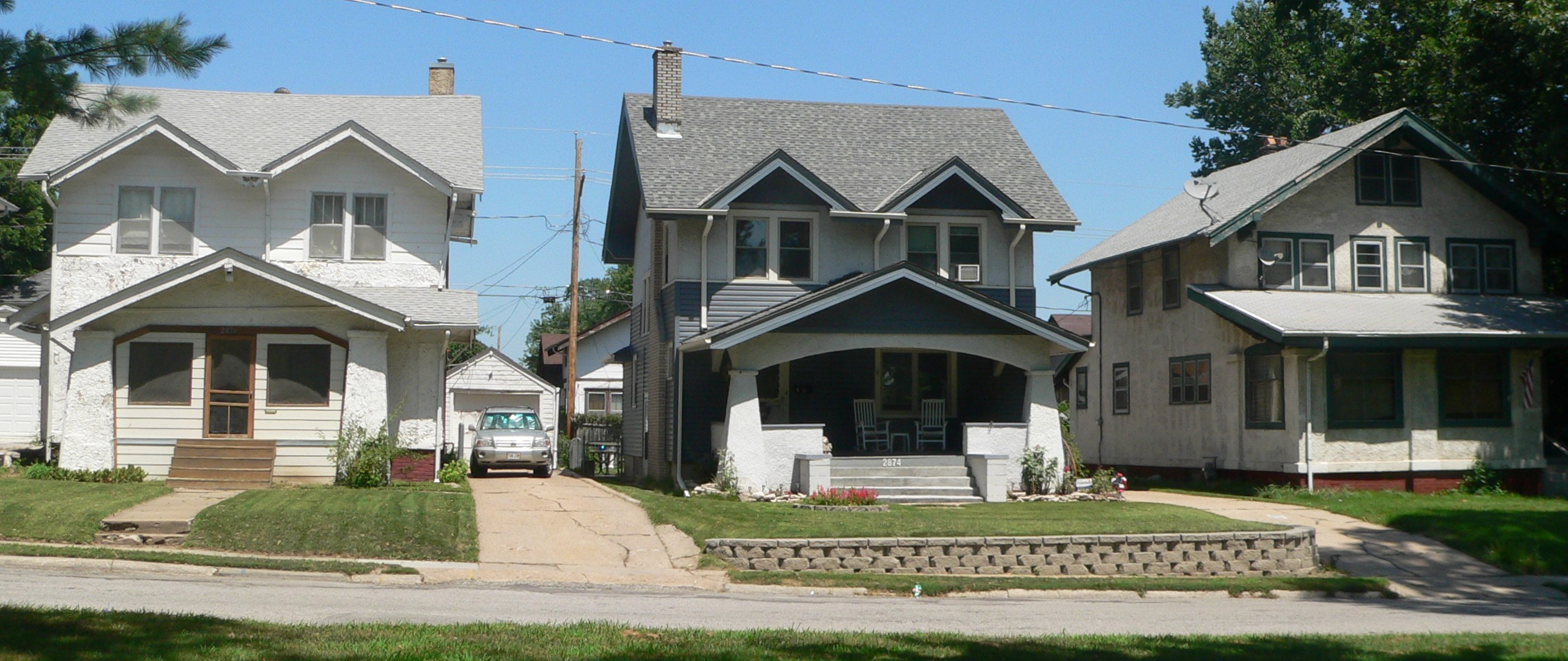 Houses on north side of 2800s block of Redick Avenue in Omaha, Nebraska. From left to right (west to east) are 2876, 2874, and 2872 Redick. The houses are part of the Minne Lusa Residential Historic District, listed in the National Register of Historic Places.